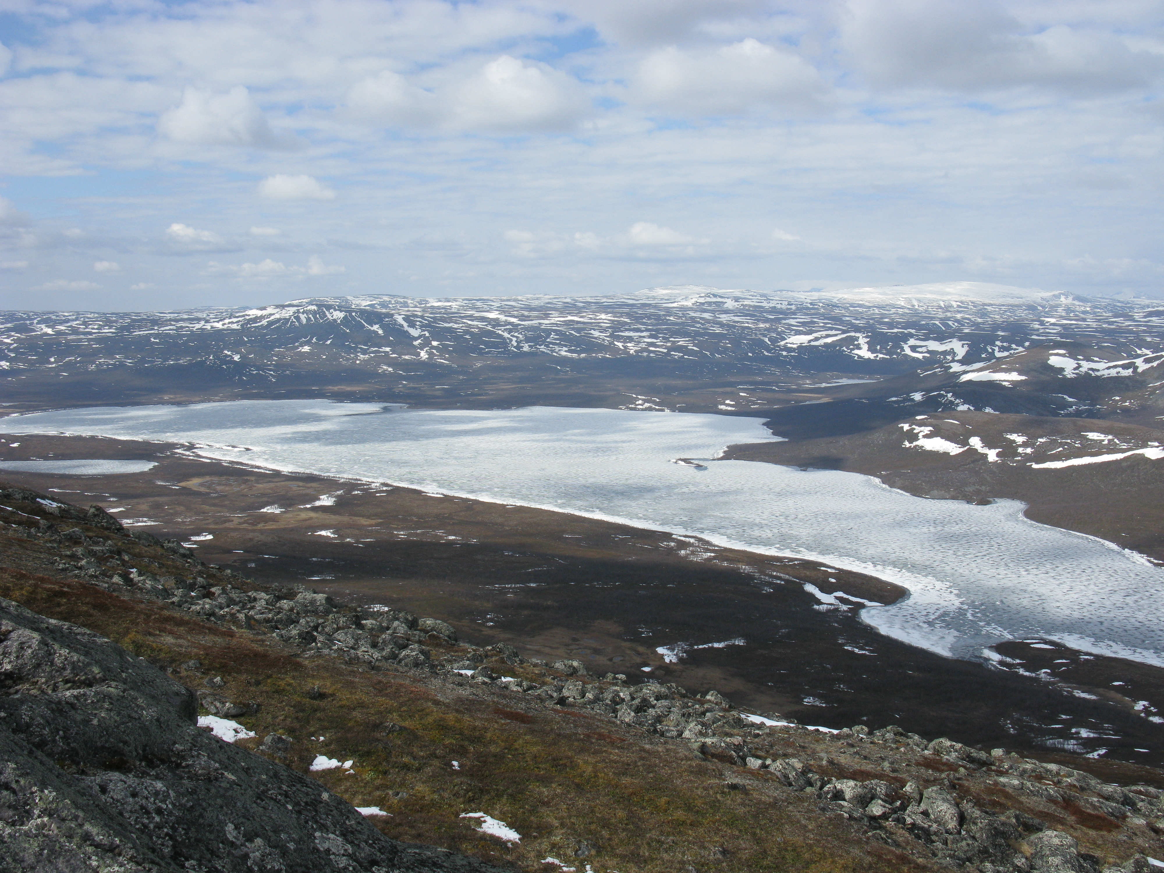 The lake Nagirjávri as seen from Nagirvárri or Nagiallegeašnjunni (the latter being a point on the ridge of the former).